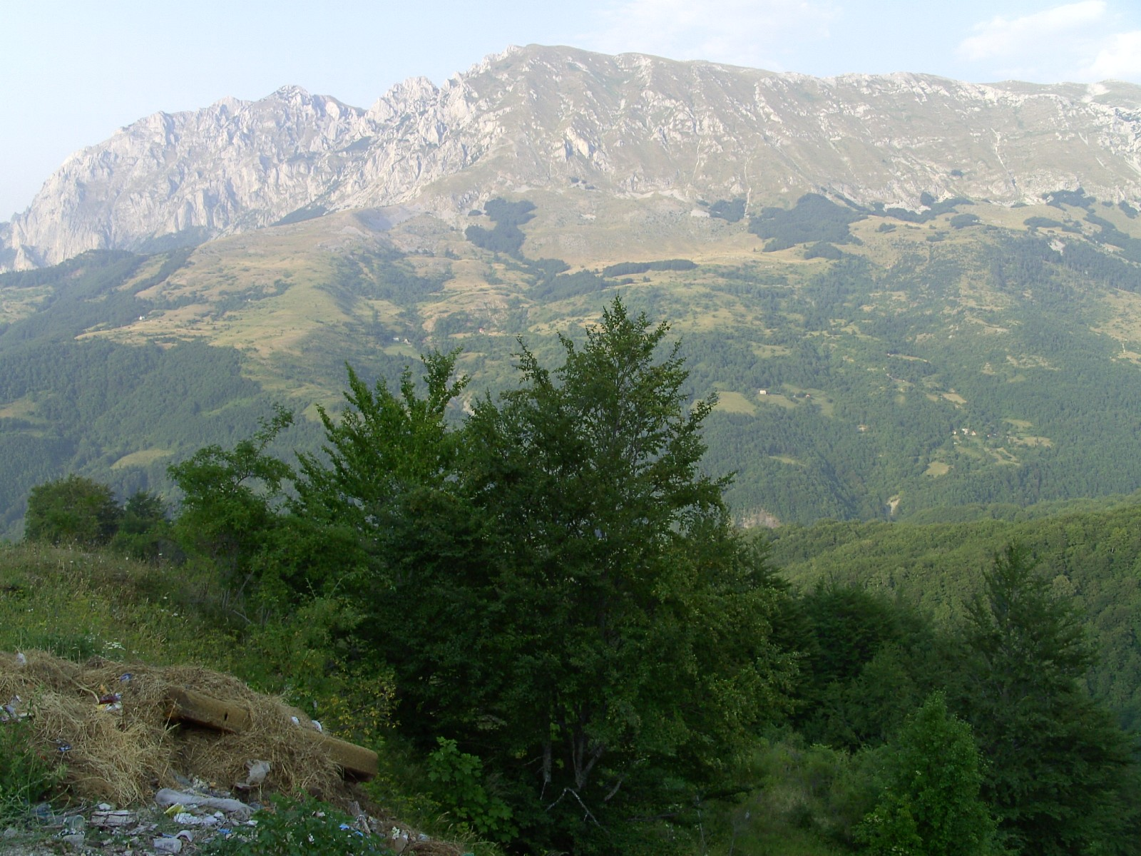 Volujak mountains in Bosnia-Herzegovina